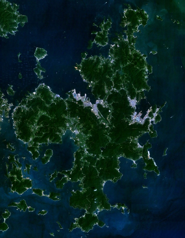 screenshot from NASA’s globe software World Wind